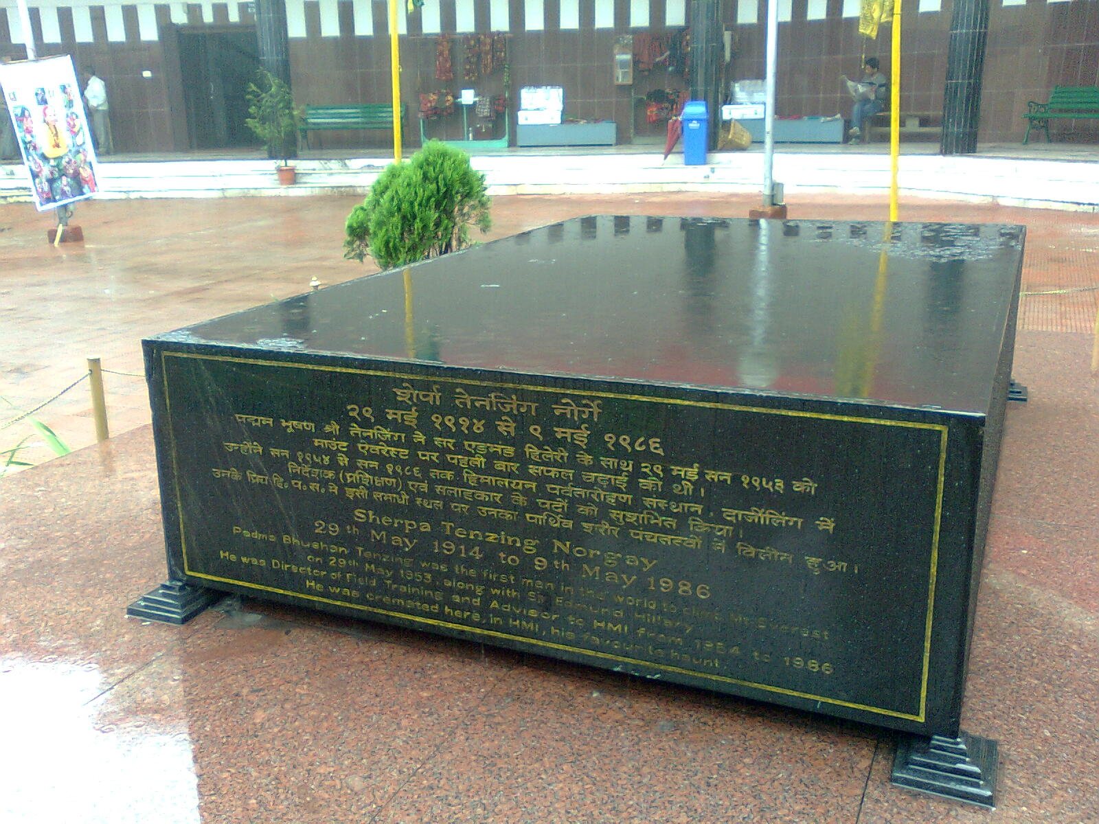 Resting Place of Tenzing Norgey in Himalayan Mountaineering Institute, Darjeeling